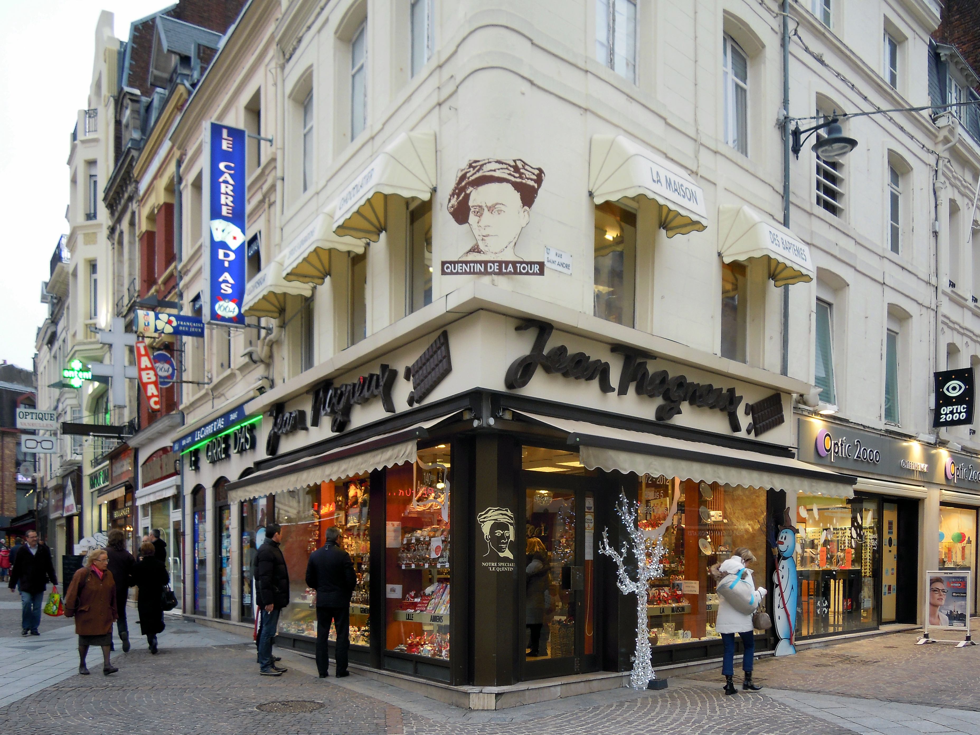 Photograph of chocolate shop, Jean Trogneux in Saint-Quentin, France